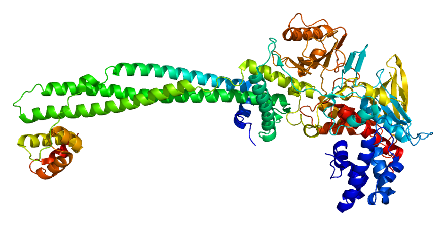 Structure of the RCOR1 protein. Based on PyMOL rendering of PDB 2iw5.